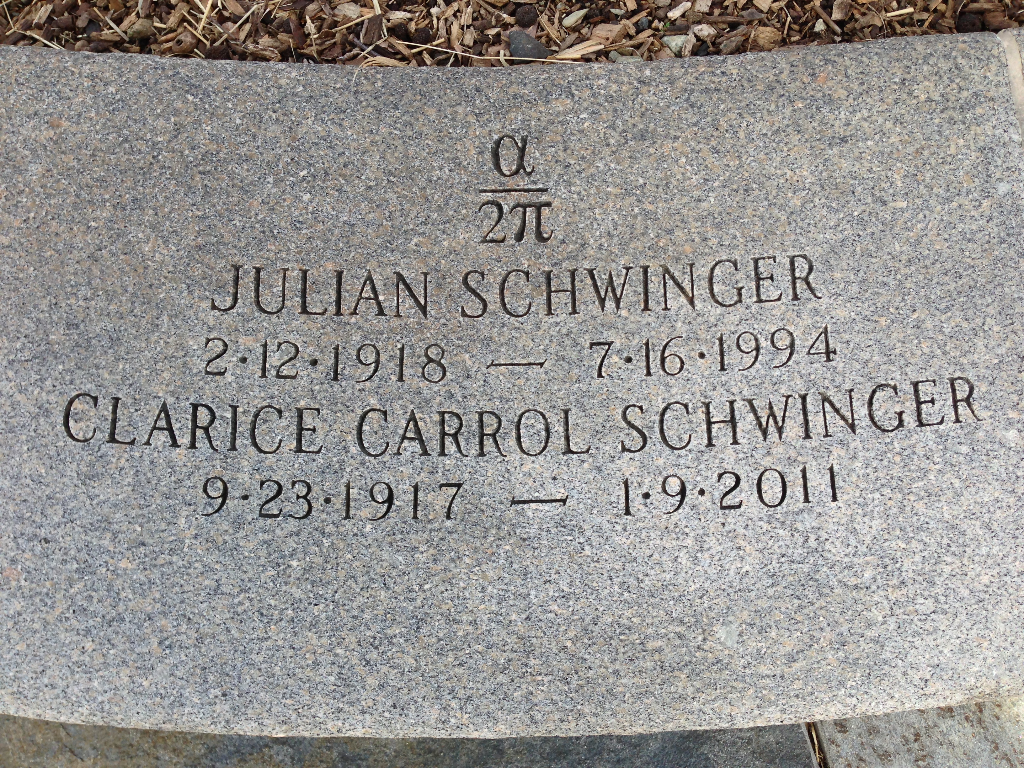 This is the headstone of Julian Seymour Schwinger at Mt Auburn Cemetery in Cambridge, MA.